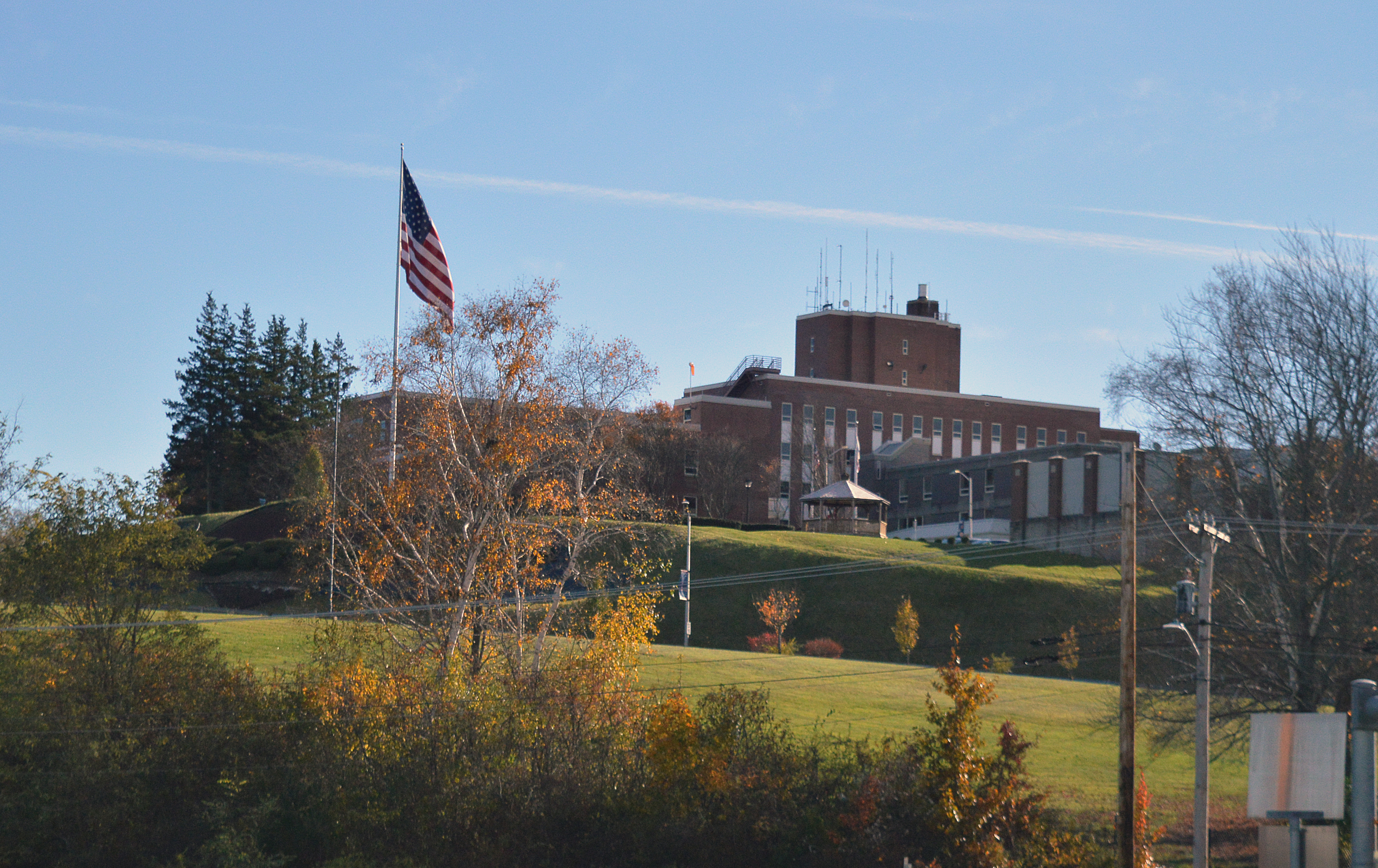 The Soldiers' Home in Holyoke, as seen from an exit on I-91.